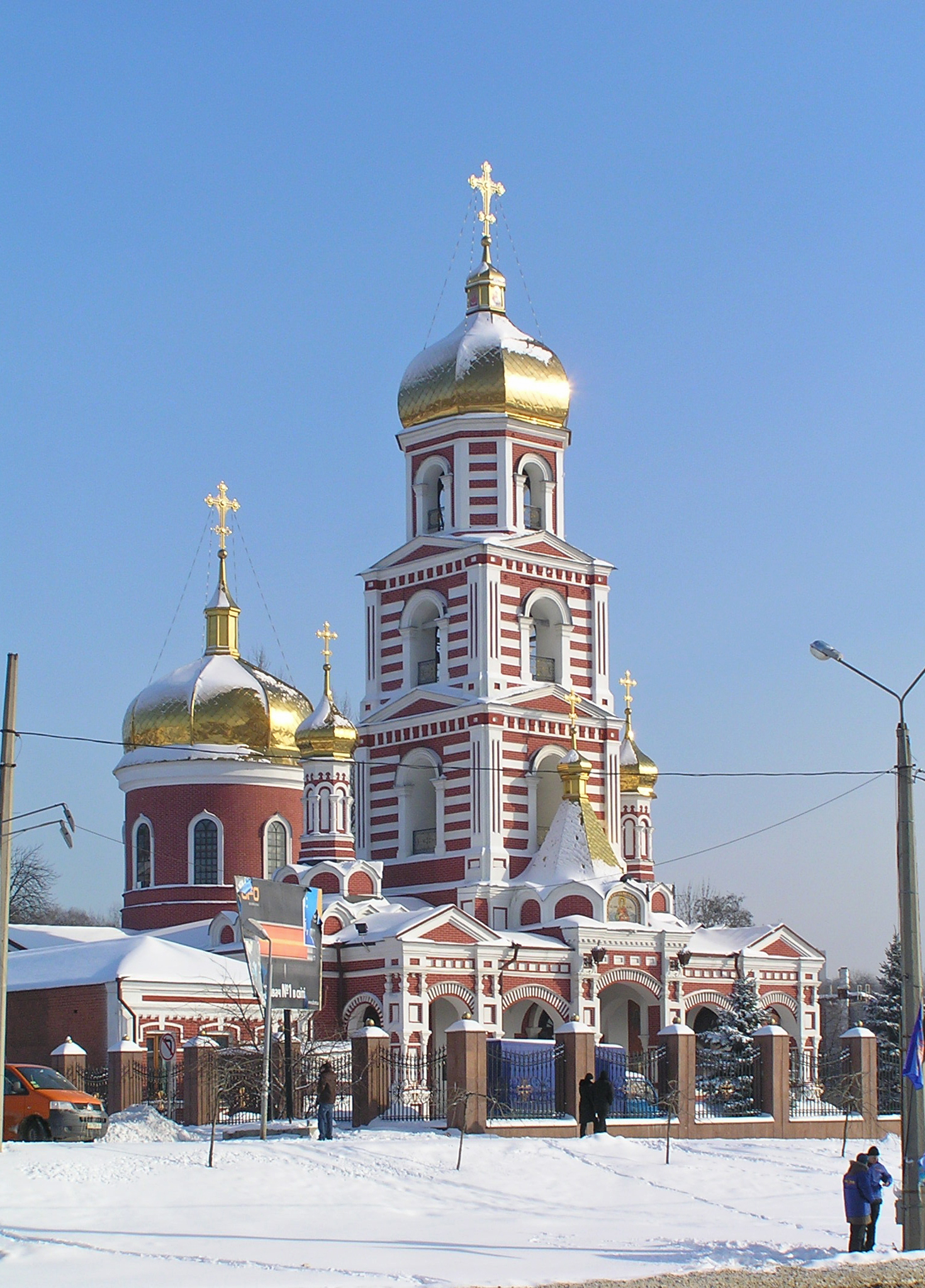 Пантелеймонівська церква 1888р., вул.Клочківська, 94-а, м.Харків